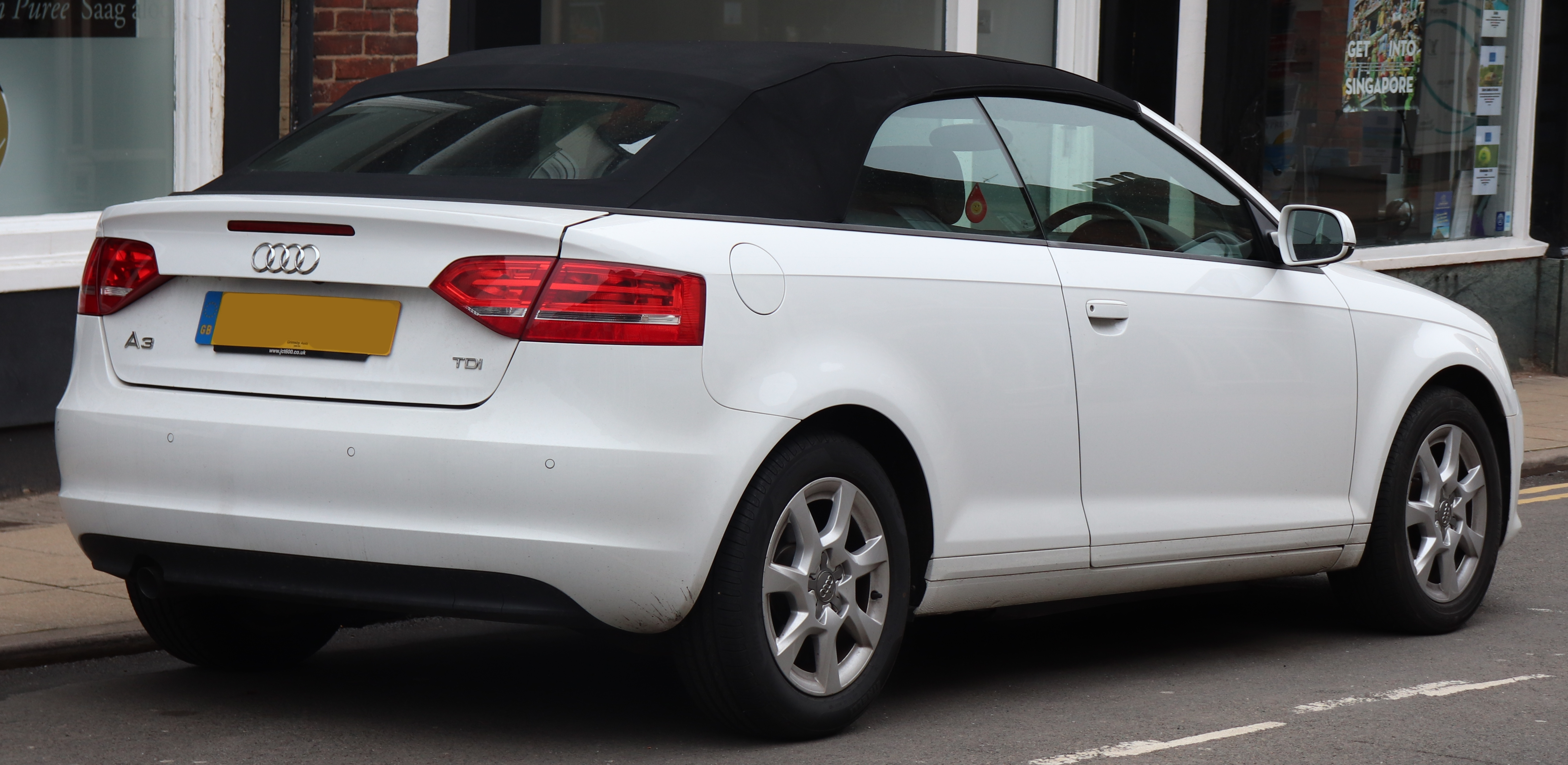 2011 Audi A3 TDi Convertible 1.6 Rear Taken in Warwick